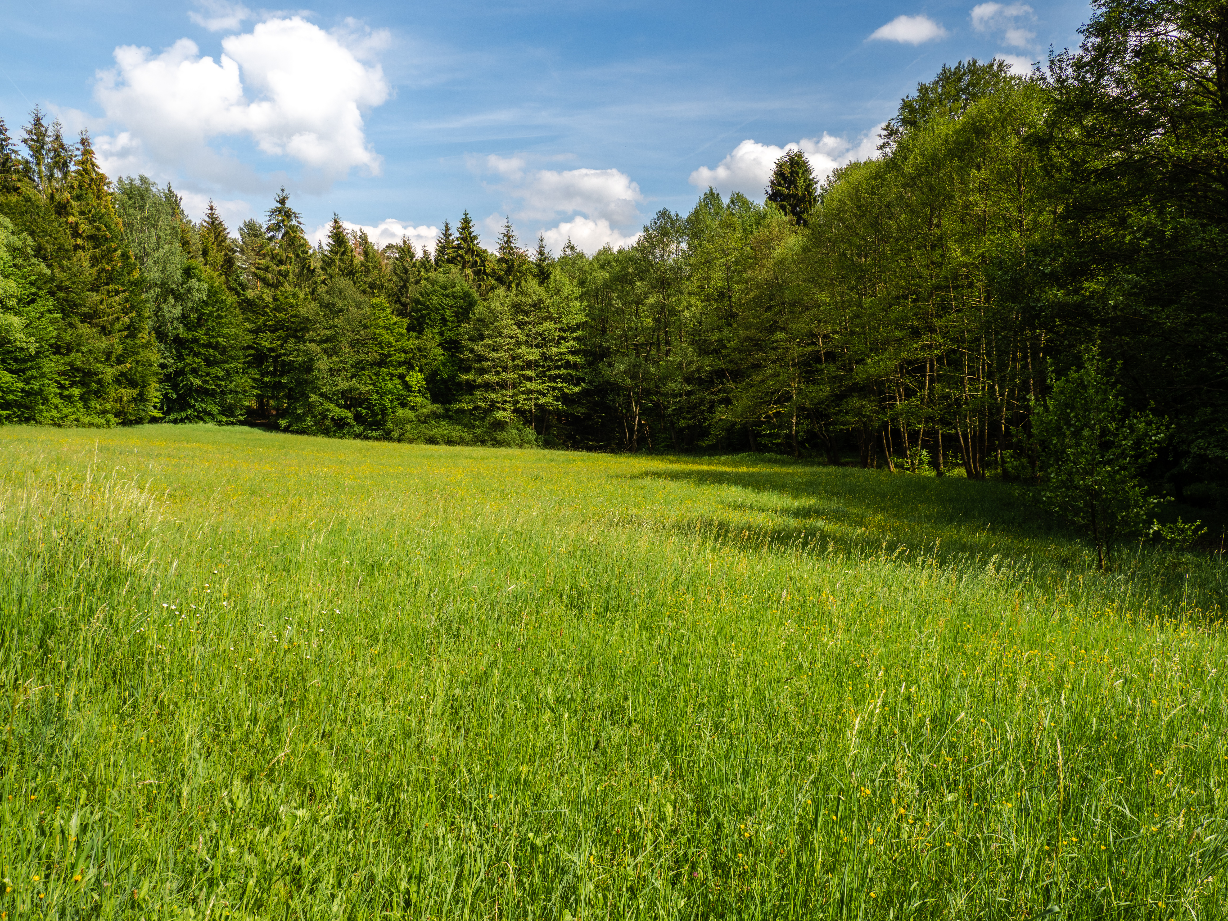 Forest meadow at the Hirschbrunnenbach in the Steigerwald near Fatschenbrunn